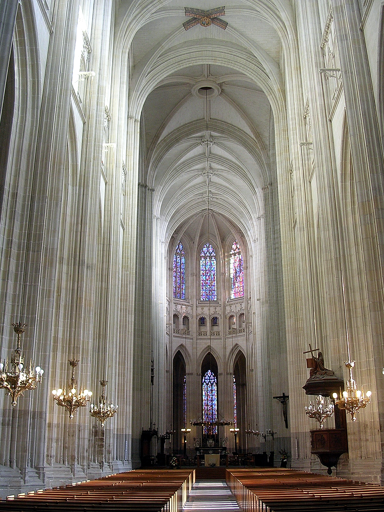 Nave of the Nantes Cathedral, in Nantes, France.